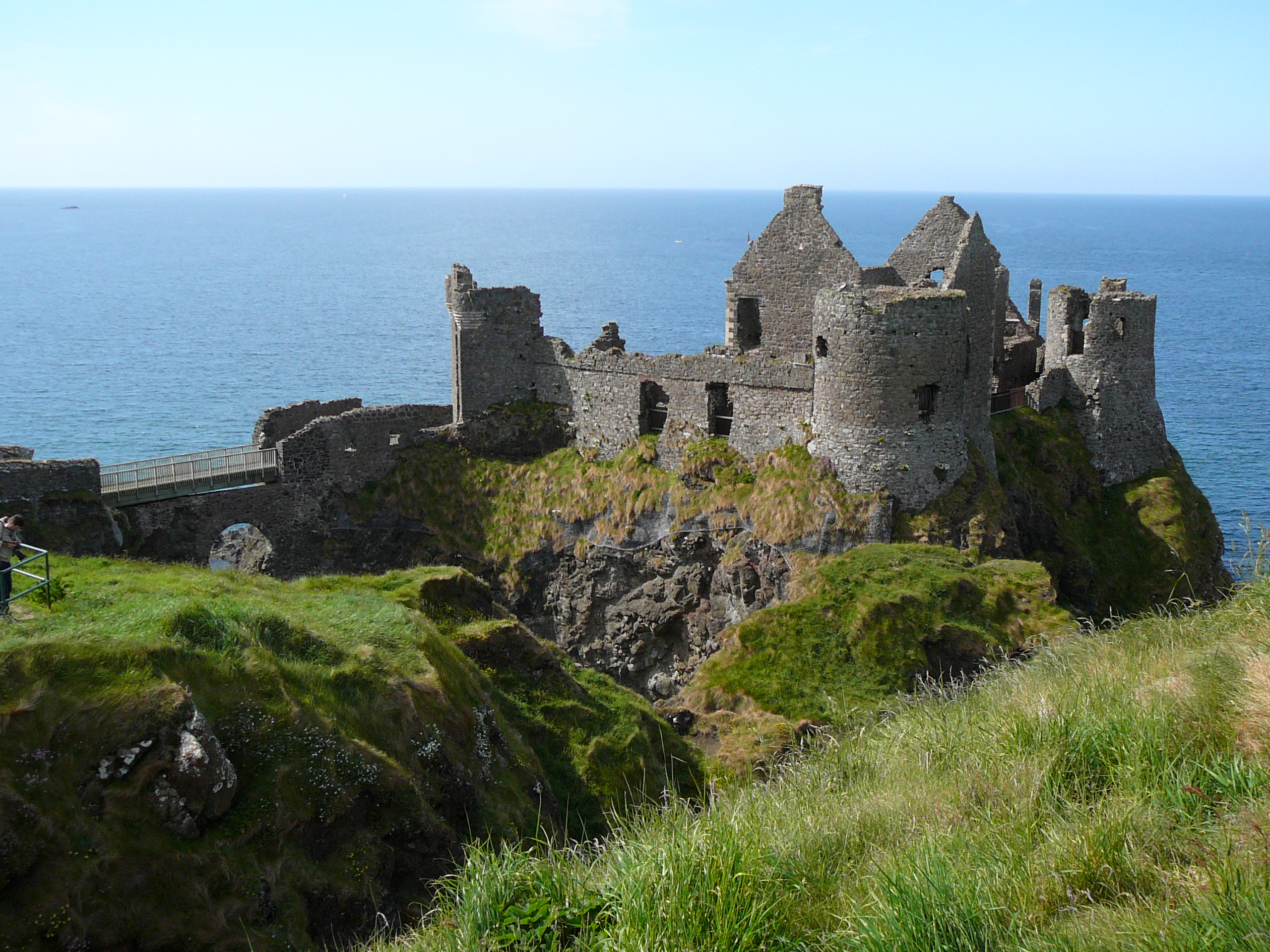 Image of Dunluce Castle Co. Antrim, from the cliff edge.